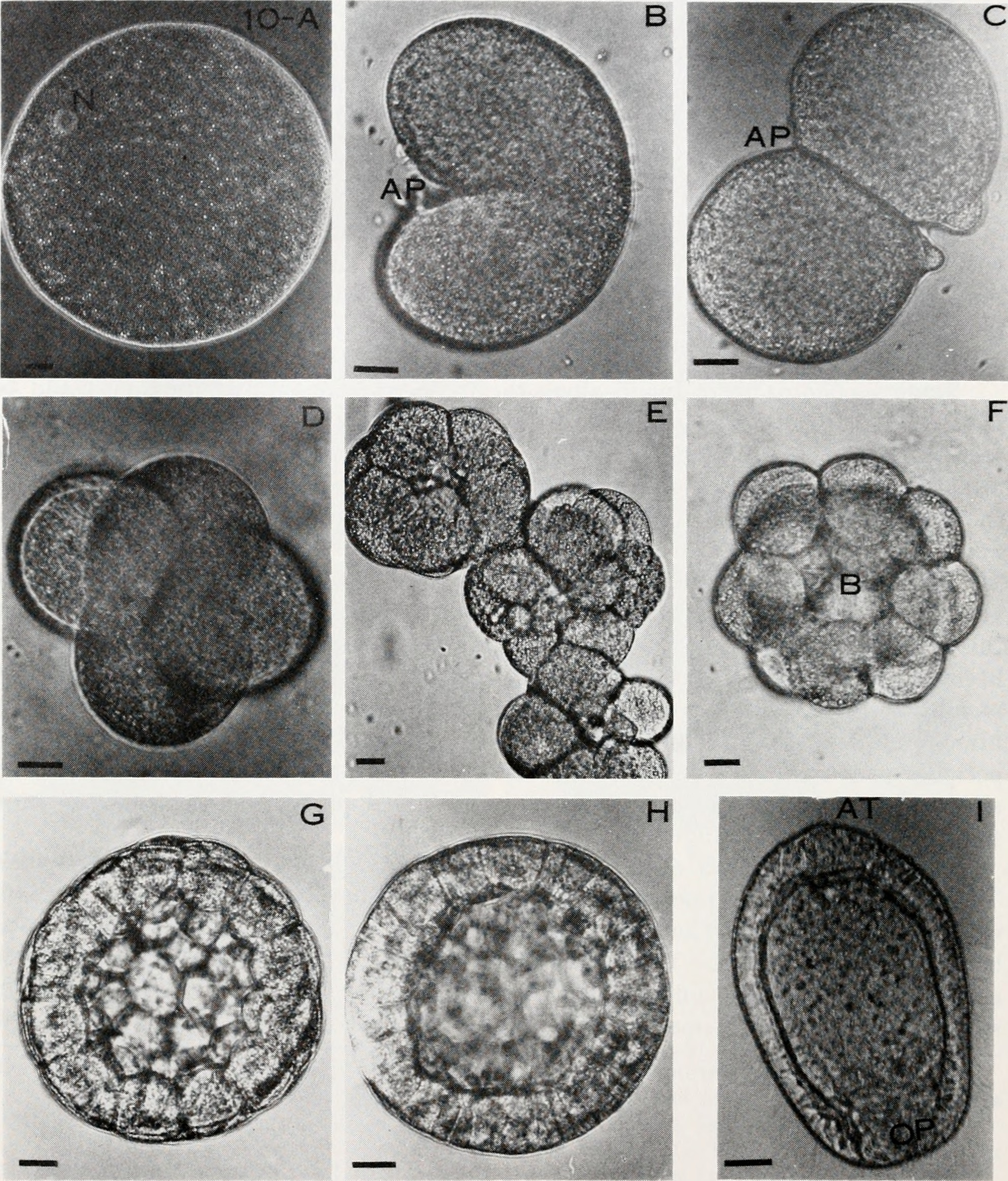 Title: The Biological bulletin Year: [1] (s) Authors: Marine Biological Laboratory (Woods Hole, Mass. ); Marine Biological Laboratory (Woods Hole, Mass. ). Annual report 1907/08-1952; Lillie, Frank Rattray, 1870-1947; Moore, Carl Richard, 1892-; Redfield, Alfred Clarence, 1890-1983 Subjects: Biology; Zoology; Biology; Marine Biology Publisher: Woods Hole, Mass. : Marine Biological Laboratory Text Appearing Before Image: 264 SZMANT-FROELICH, YEVICH AND PILSON Text Appearing After Image: FIGURE 10. Photomicrographs of various stages in the embryonic development of Astrangia danae. A. Unfertilized egg wth eccentric nucleus. B. First cleavage proceeds from animal to vegetal pole. C. First division complete; notice small protuberances being pinched off at vegetal pole. D. Psuedospiral arrangement of blastomeres after second division. E. Irregularly shaped embryos resulting from nonsynchronous third and fourth divisions. F. Embryo of around 20 blastomeres, with large blastocoele. G. Sixty-four cell stage; blasto- meres still rounded. H. Blastula stage; blastomeres compressed. I. Planula stage, showing apical tuft of cilia and oral pore. Abbreviations: AP—animal pole; AT—apical ciliary tuft; B—blastocoele; N—nucleus; OP—oral pore. Scale bars are 10 /xm. Few eggs remained in the gonads. By mid-September, however, stage I and II oocytes began to appear in the mesenteries again. Although some of these oocytes developed as far as stage IV, they were never as numerous and they never attained the size of the mid-summer oocytes. As with the male colonies, there was no evi